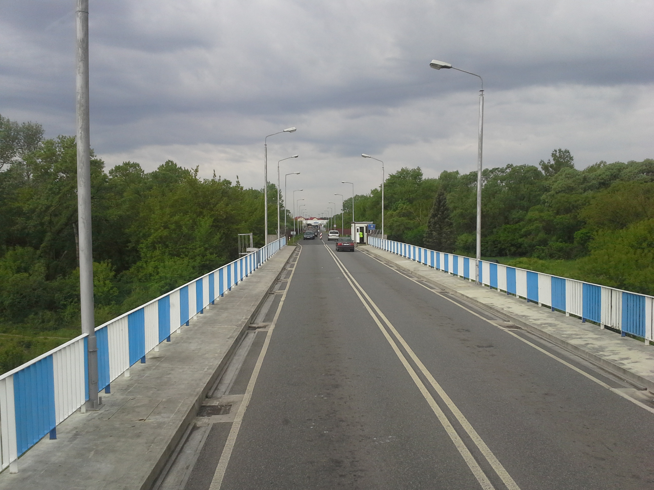 Terespol border checkpoint (east)